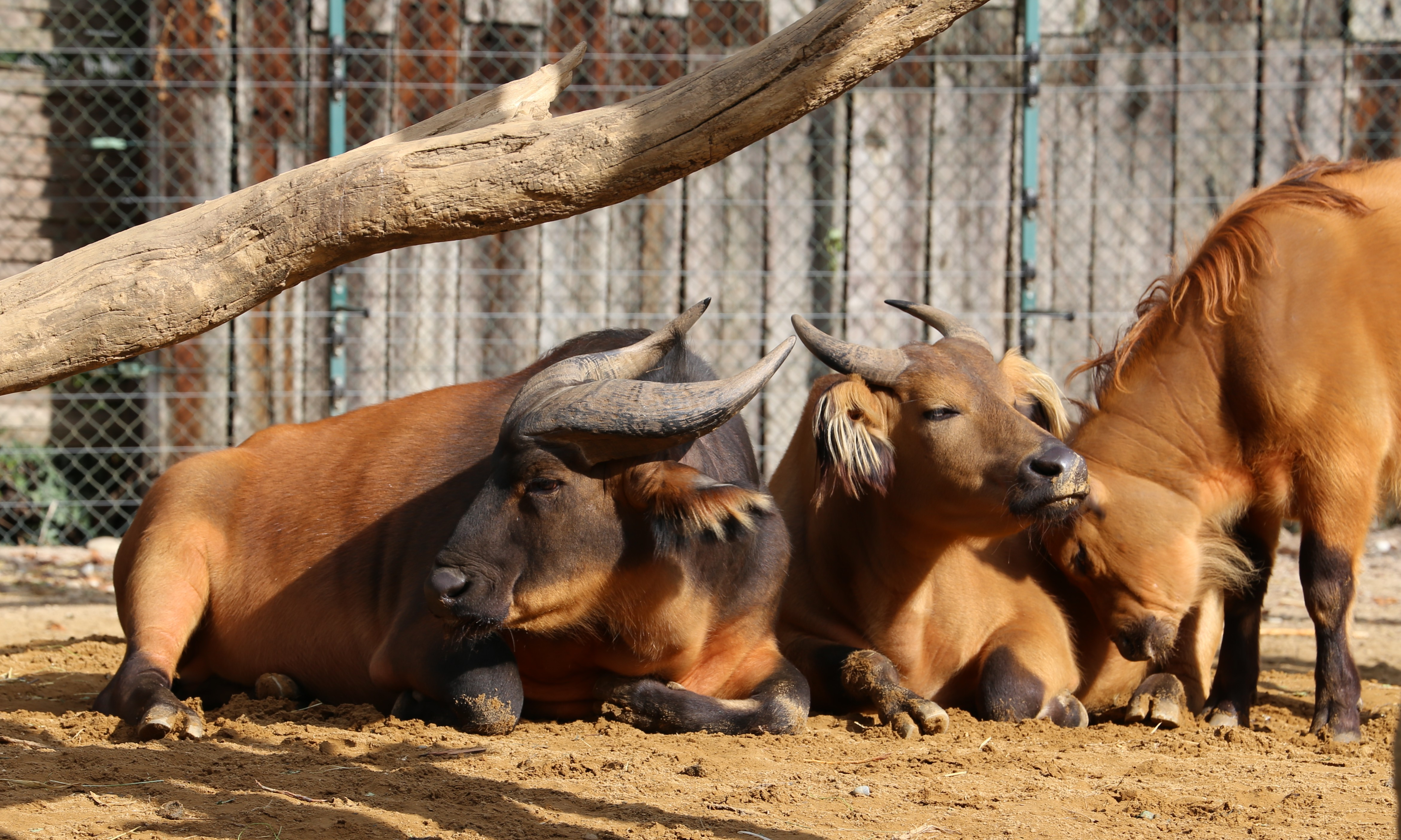 Rotbüffel, Syncerus caffer nanus, Zoo Augsburg